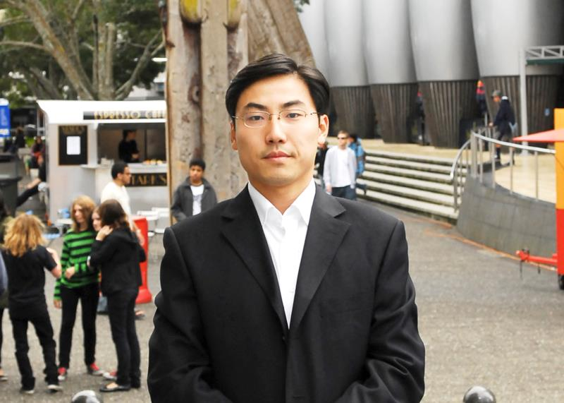 at Auckland